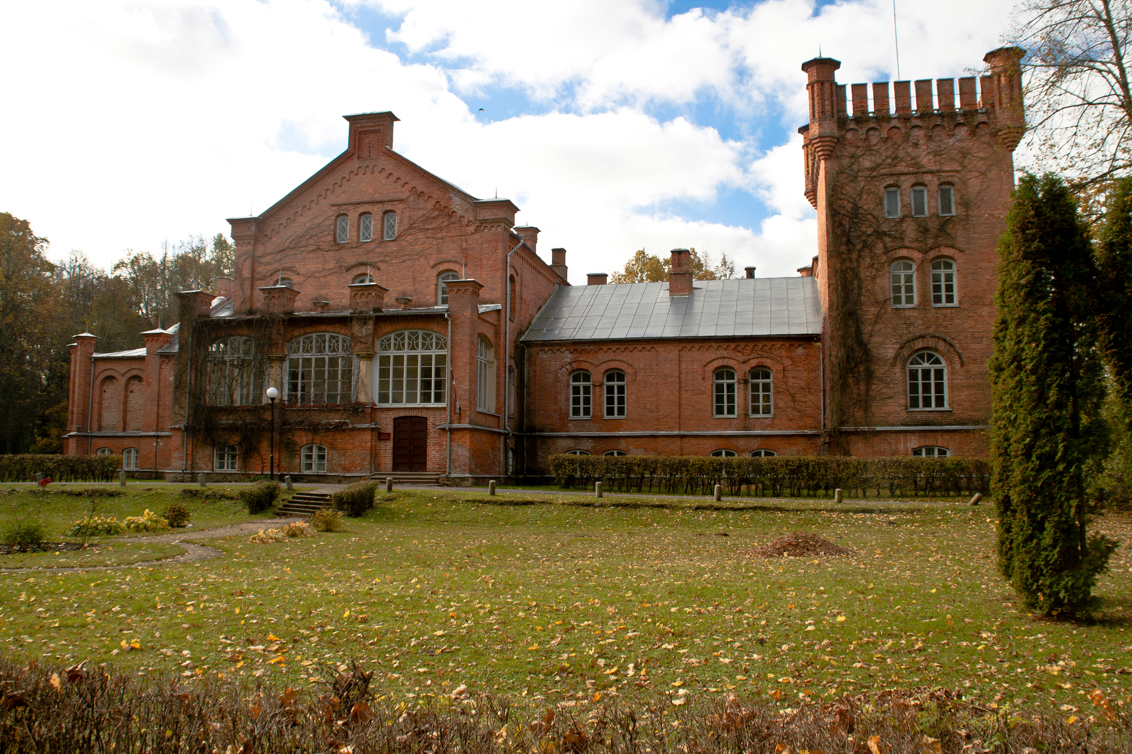 Puikule Manor was built in the 1870's in Latvia.